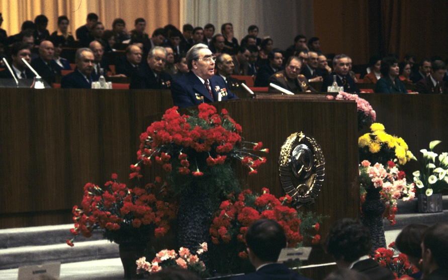 “Leonid Brezhnev speaks at 18th Komsomol Congress opening”. General Secretary of the CPSU Leonid Brezhnev speaks during the opening ceremony of the 18th Soviet Young Communist League Congress at the Kremlin Palace.